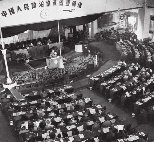 This the photo of the 1st conference of the Chinese People's Political Consultative Conference. The conference decided the capital, flag, national emblem and anthem of the People's Republic of China. The conference also decided "Beiping", renamed the original name "Beijing". The conference hall has indicated the slogan "Long live the Chinese People Consultative Conference" on the wall.中文（中国大陆）: 此为中国人民政治协商会议第一届全体会议的照片。此次会议决定了中华人民共和国的首都、国旗、国徽和国歌，同时通过了北平恢复使用原名北京的决定。在会议大厅上的墙上，注明了“中国人民政治协商会议万岁”的标语。